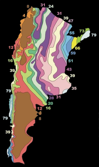 Average annual rainfall in Argentina (inches).